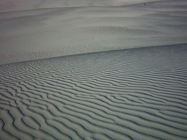 Little Sahara, Kangaroo Island, South Australia. Photo taken by Stephen West in January 2005 with a Digitrex DSC-2100 digital camera.